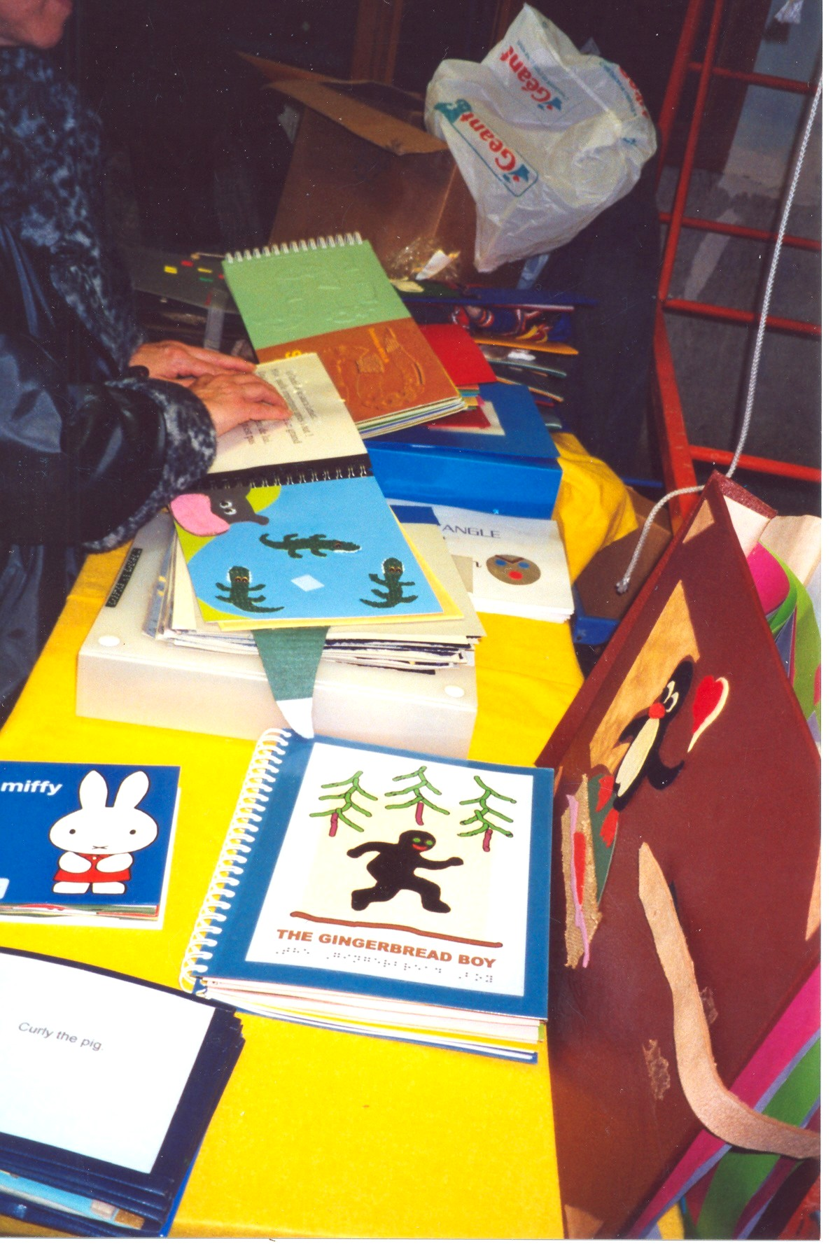 Tactile picture books - Montreuil Children's Book Fair 2001